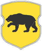 Coat of Arms of Goniadz, old.gif Беларуская (тарашкевіца): Герб места Гонядзь, стары.gif